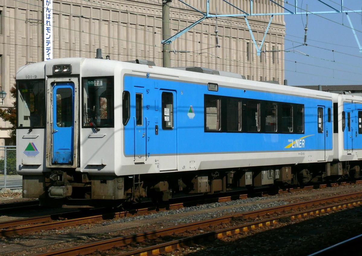 JR East KiHa 100 series DMU car KiHa 101-9 at Yamagata Station